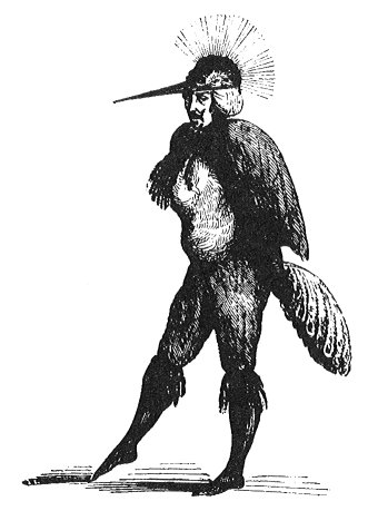 The demon Caim in human form from Collin de Plancy's Dictionnaire Infernal, 1863 edition.